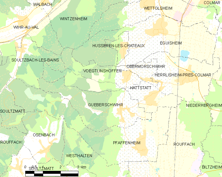 Map of French municipality